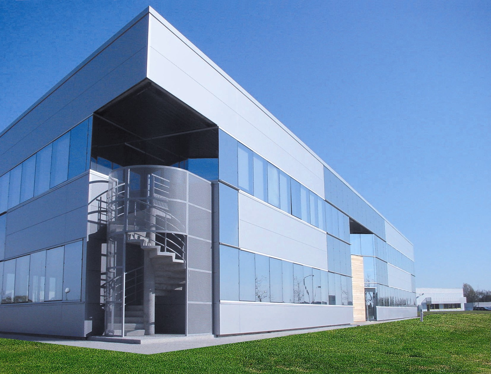 Photo Telelogos Headquarter